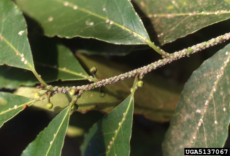 Japanese wax scale (Ceroplastes japonicus)